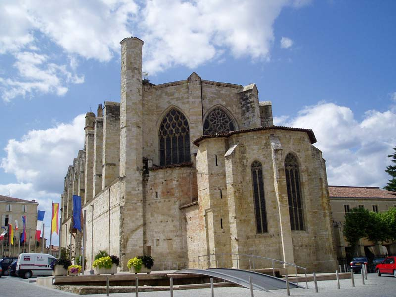 Cathedral of Saint Pierre in Condom (Gers, France).